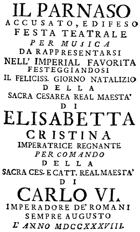 Georg Reutter - Il Parnaso accusato e difeso - titlepage of the libretto - Vienna 1738